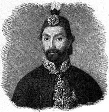 Portrait of Abdülmecid I, Sultan of the Ottoman Empire (1839-1861).